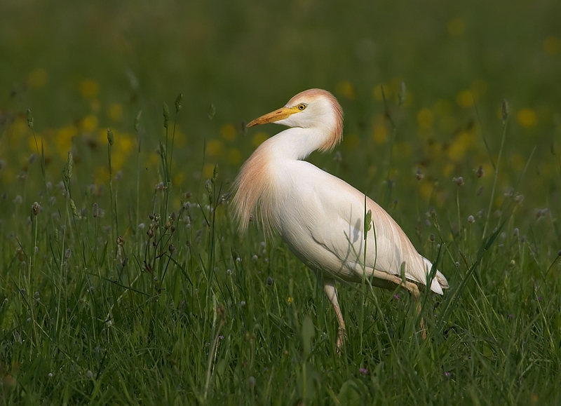 Bubulcus ibis, Ombrone river, Italy